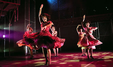 The Shark girls extol the virtues of "America" in Portland Center Stage's production of West Side Story (left to right: Courtney Laine Mazza, Ivette Sosa, Dayna Tietzen, Kristen J. Smith, and Anna Kaiser).